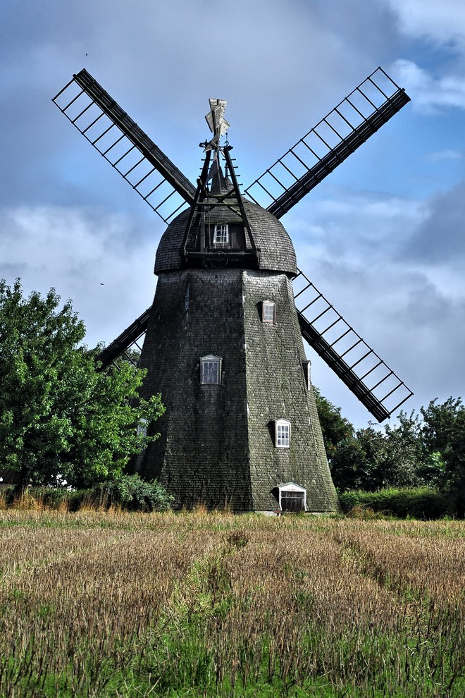 Svanemøllen windmill at Svaneke on the island of Bornholm in Denmark